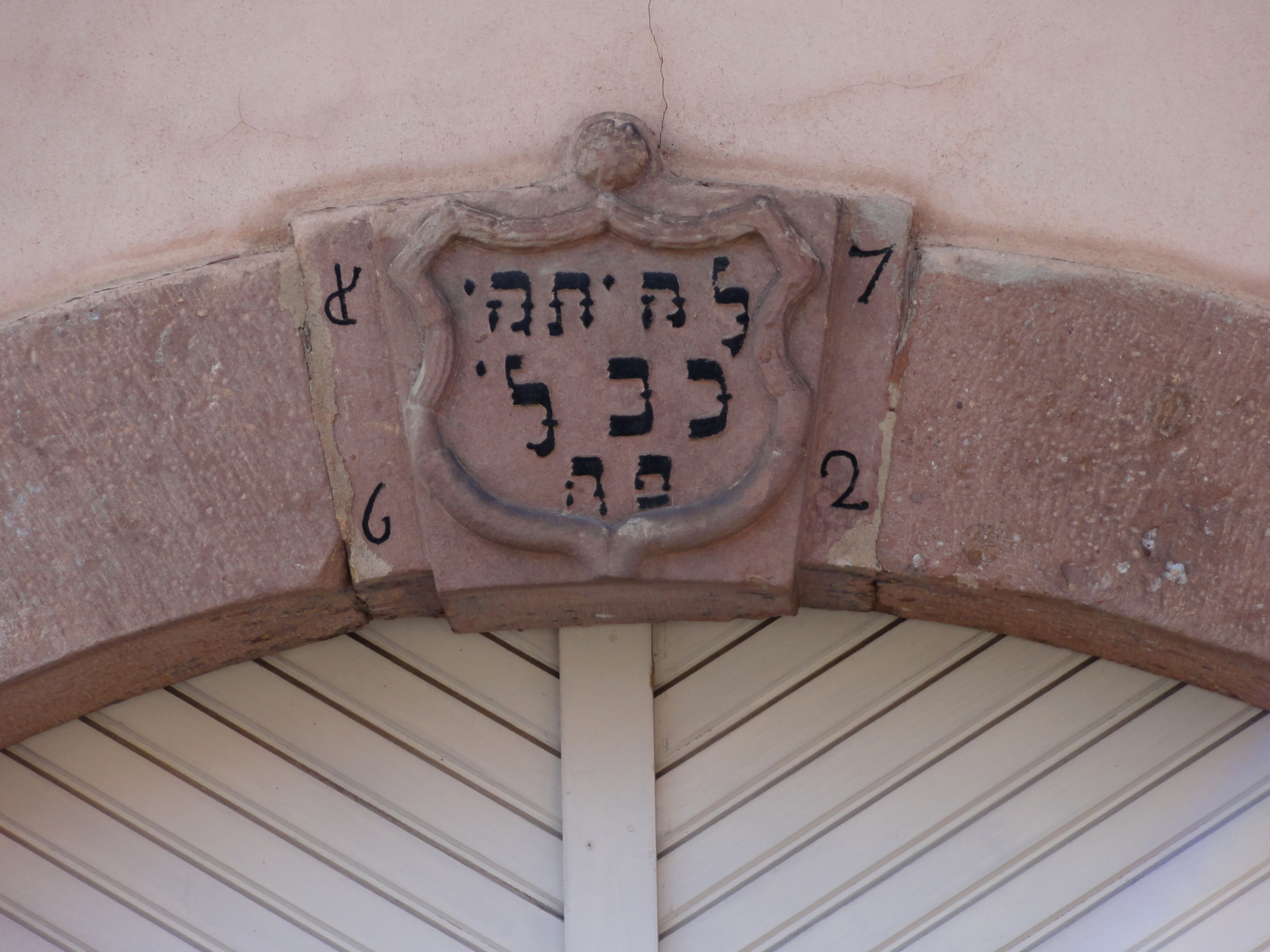 Alsace, Bas-Rhin, Scherwiller, Maison du Rabbin (XVIIIe), 8 rue du Giessen. It is indexed in the Base Mérimée, a database of architectural heritage maintained by the French Ministry of Culture, under the references PA00084971 and IA00124544 .